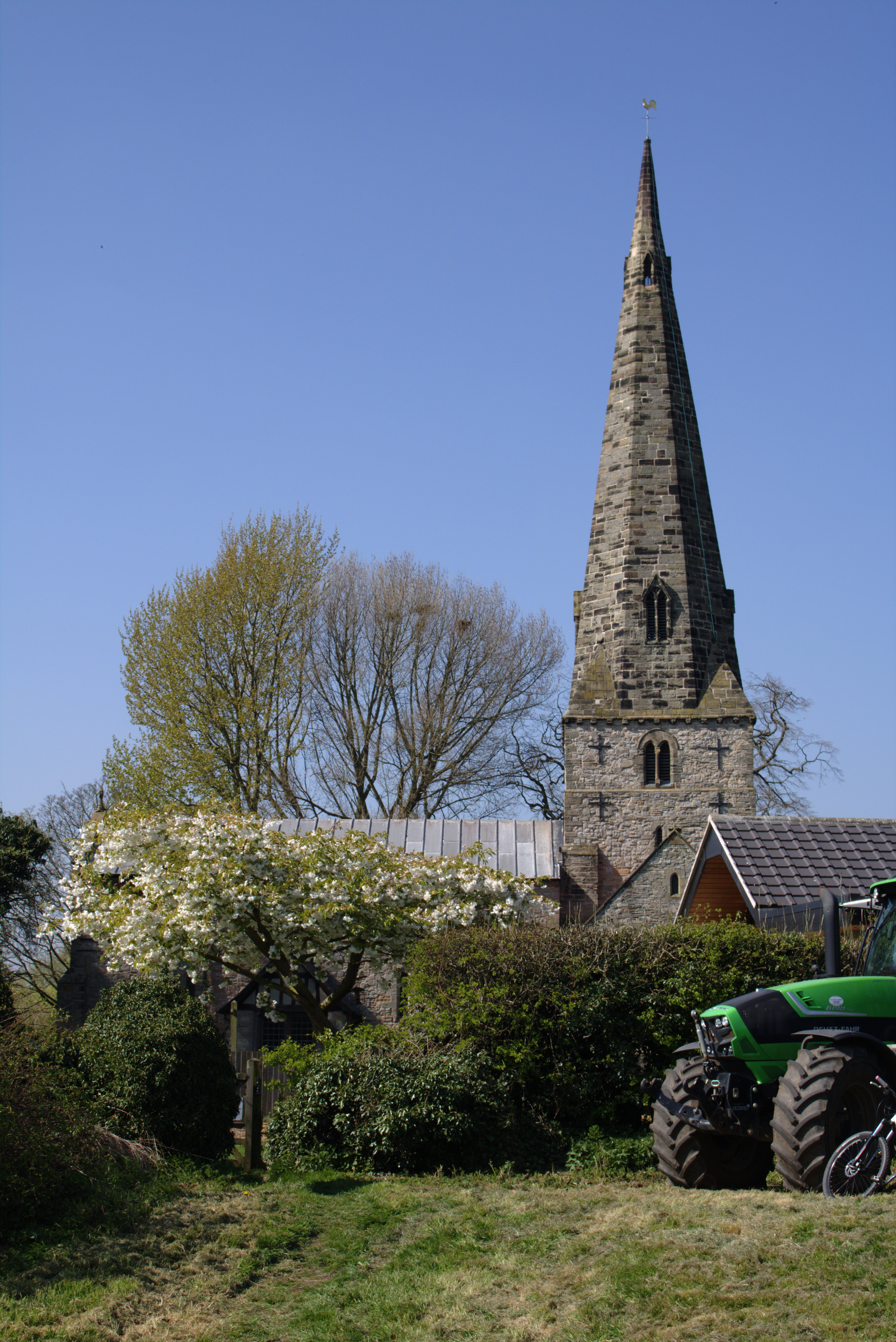 View of St James' Church, Normanton on Soar from the neighbouring Ferry Field.